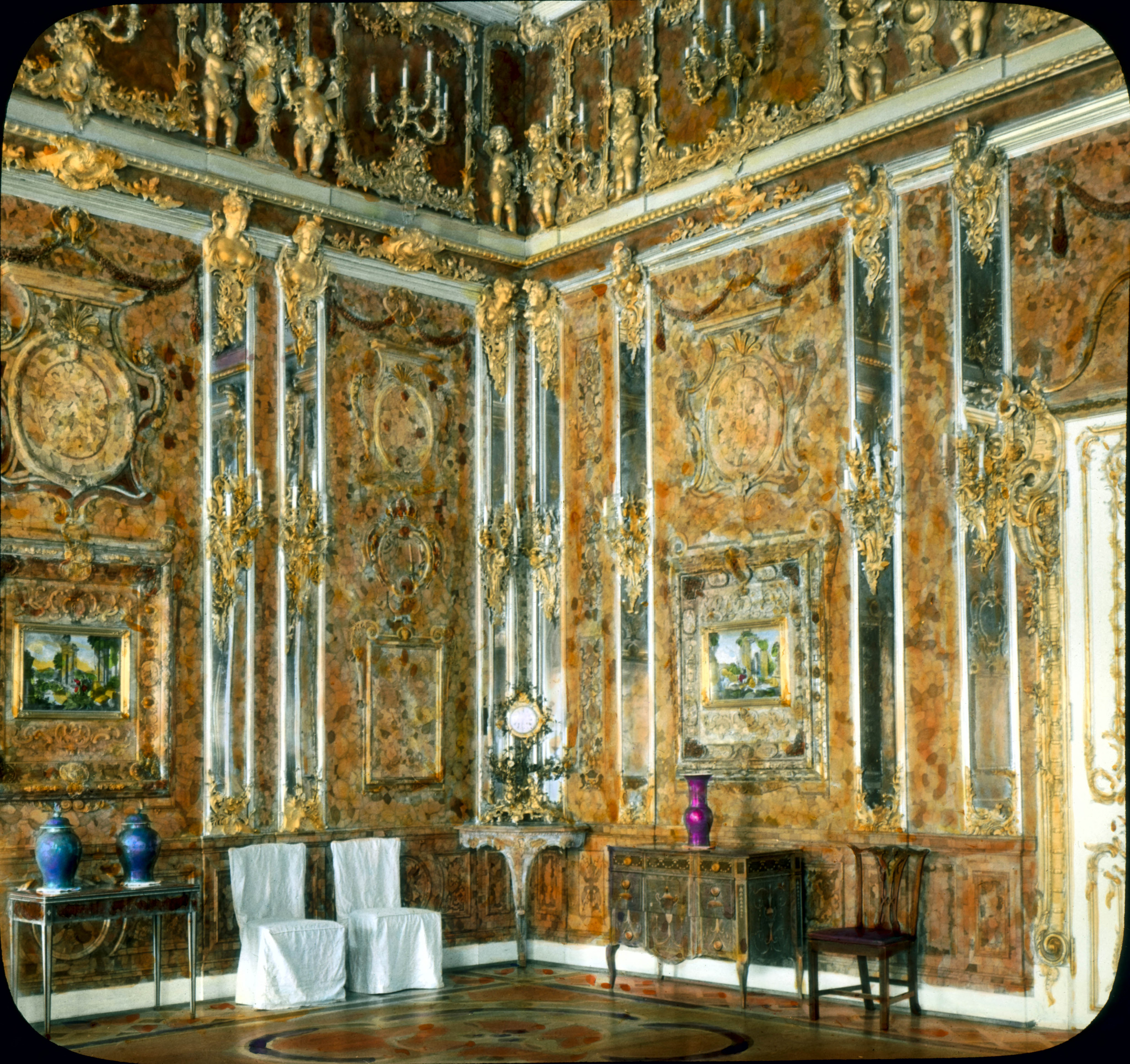 Pushkin (Tsarskoe Selo). Catherine Palace (destroyed in World War II): interior, Amber Room.